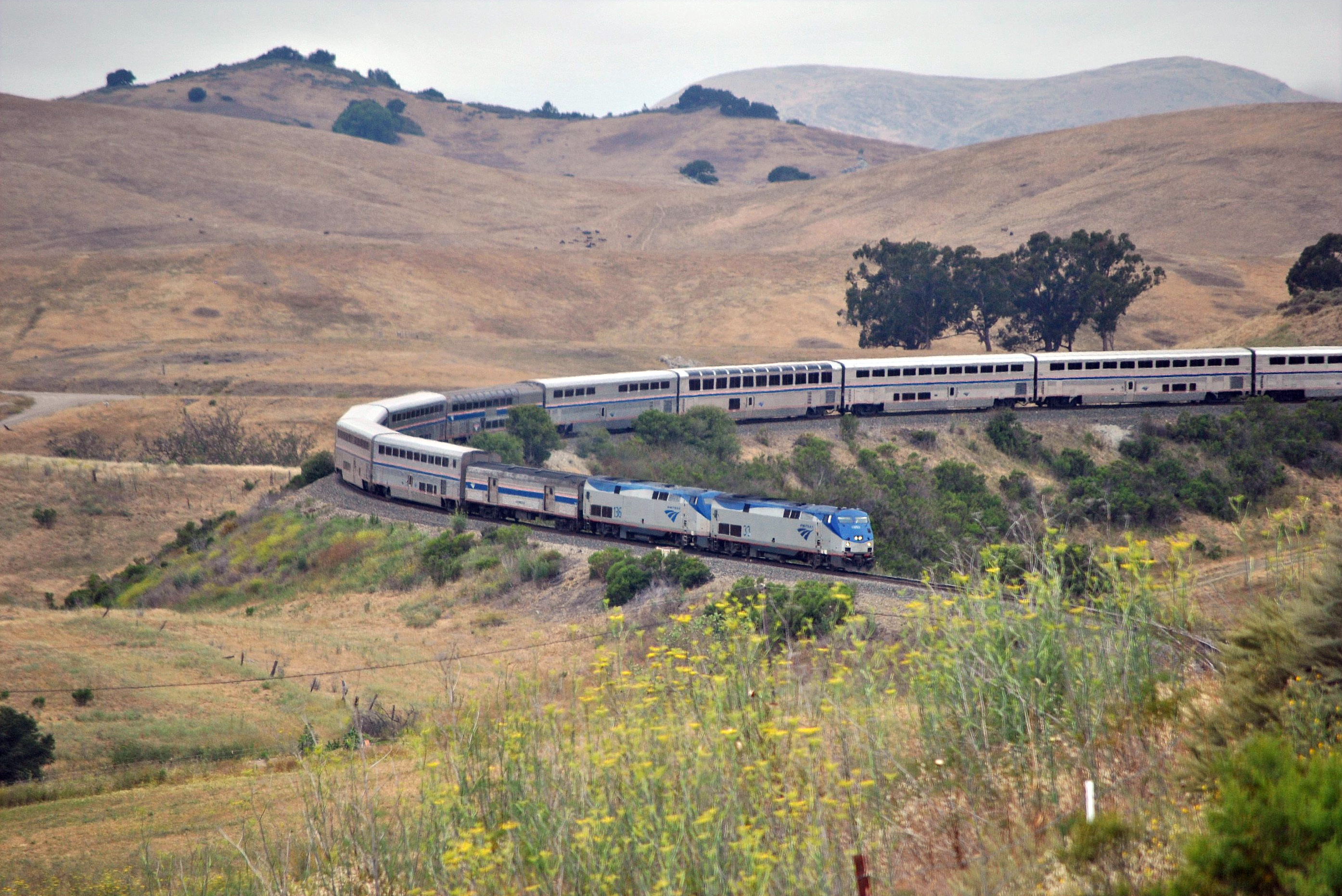 The Coast Starlight descends north of San Luis Obispo.